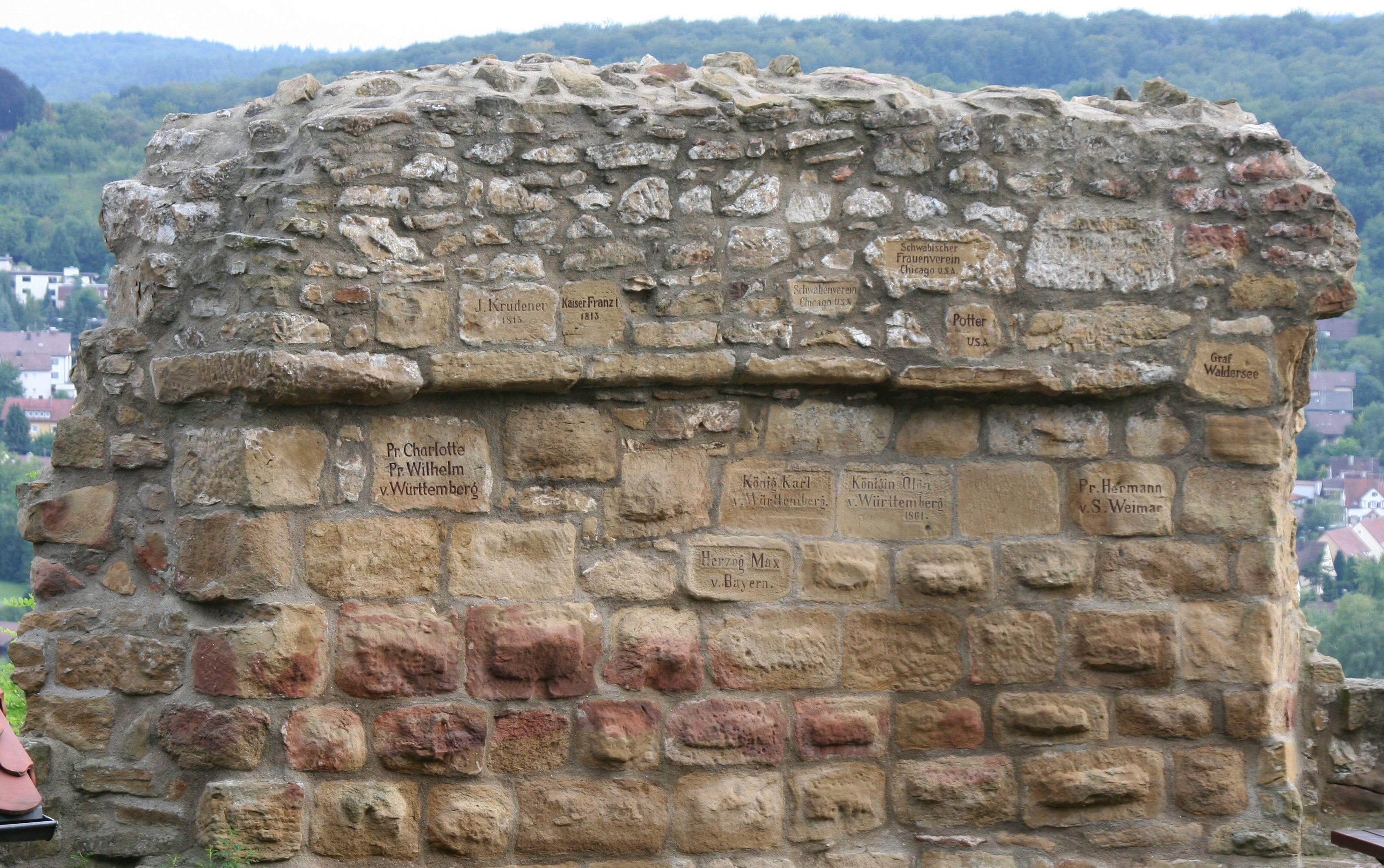 Burgruine Weibertreu. Kings' wall